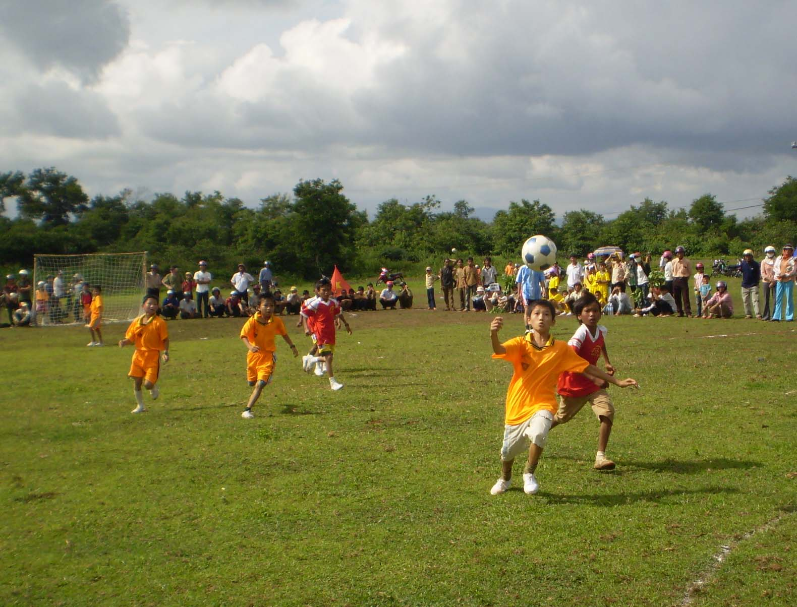 Young child football